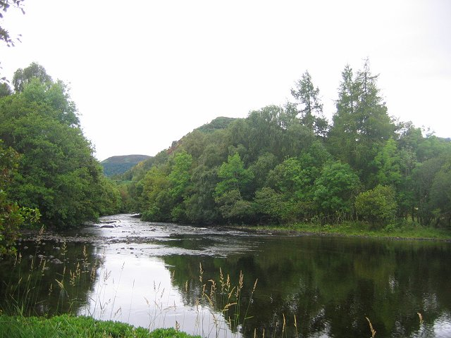 The Blackwater , Contin. Draining a vast area of the Fannaichs and Dirrie More (Only the hydro take a fair bit for their purposes)the Blackwater approaches the confluence with the Conon. Here it divides into two, leaving an inhabited island.